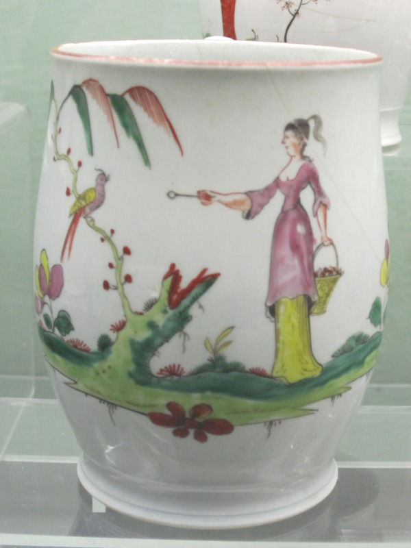 Porcelain cup made sometime between 1756-1761 by William Reid and Co of Brownlow Hill, Liverpool. On display at the Williamson Art Gallery and Museum, Birkenhead, Merseyside, England.